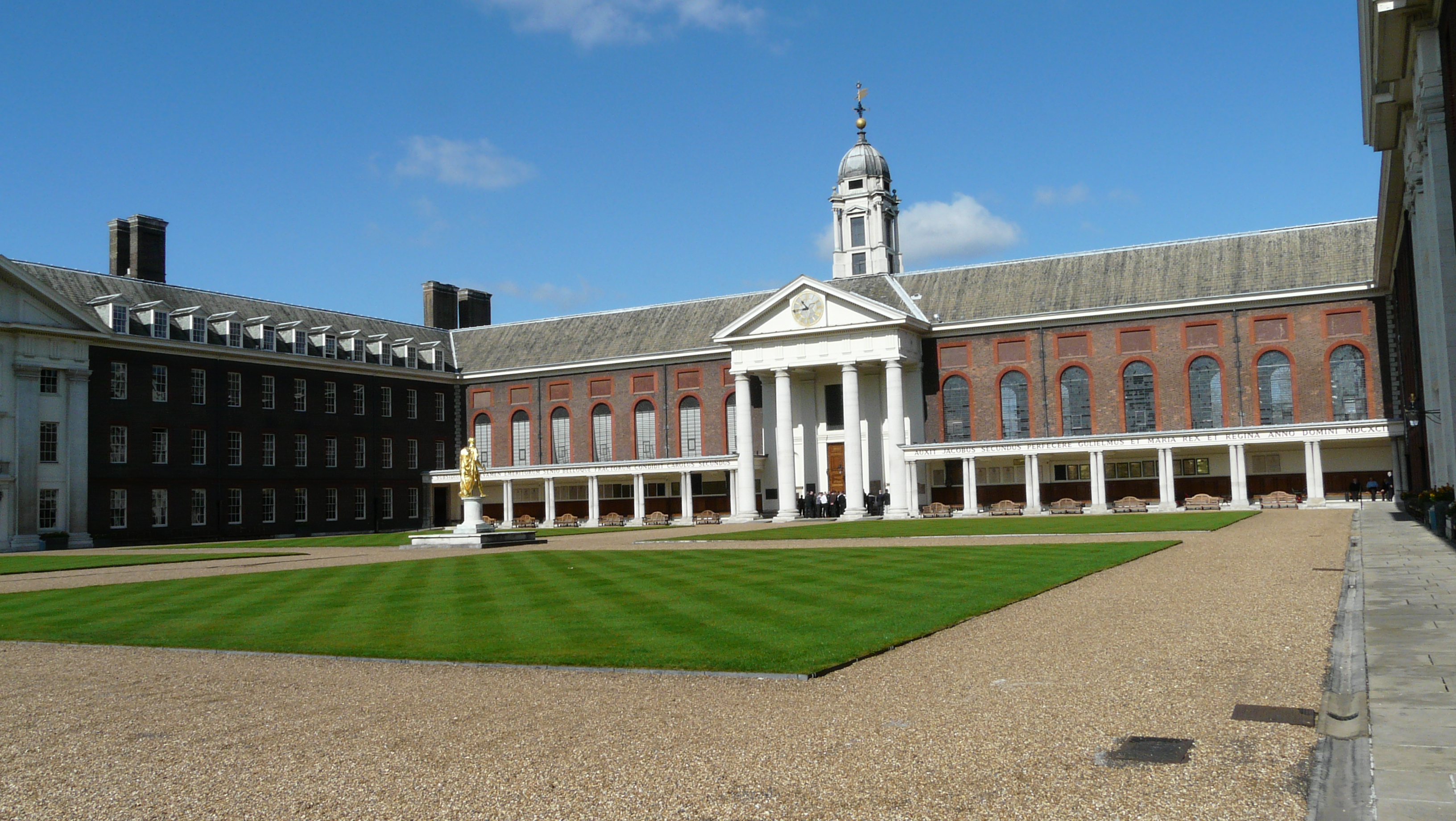 Courtyard of the Royal Hospital Chelsea (south front)